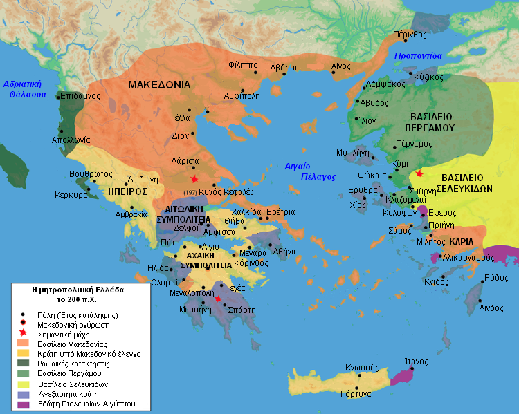 Macedonia and the Aegean world c.200 B.C. This image is made by Raymond Palmer